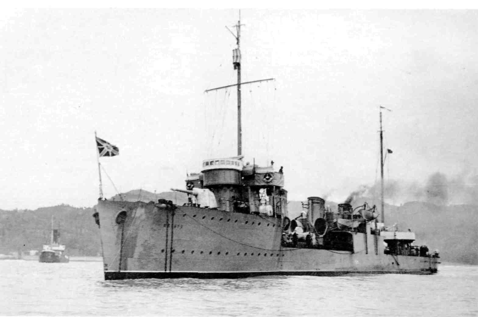 Soviet destroyer Shaumian.